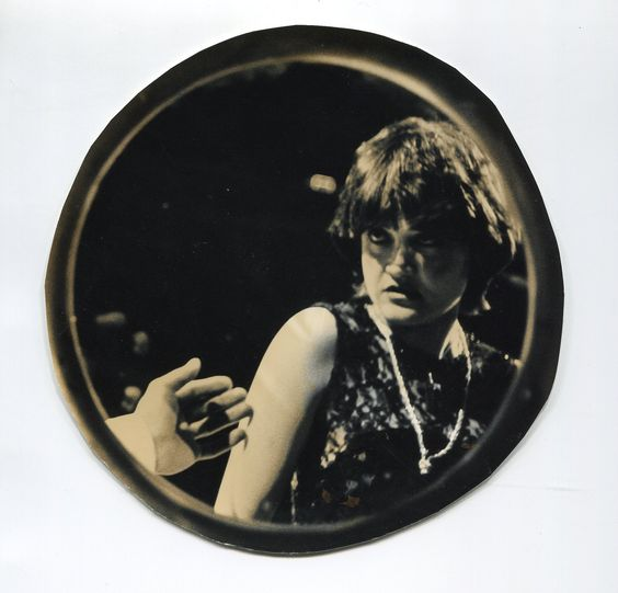 Angelique Rockas as Carmen in 'The Balcony' by Jean Genet, presented by Internationalist Theatre